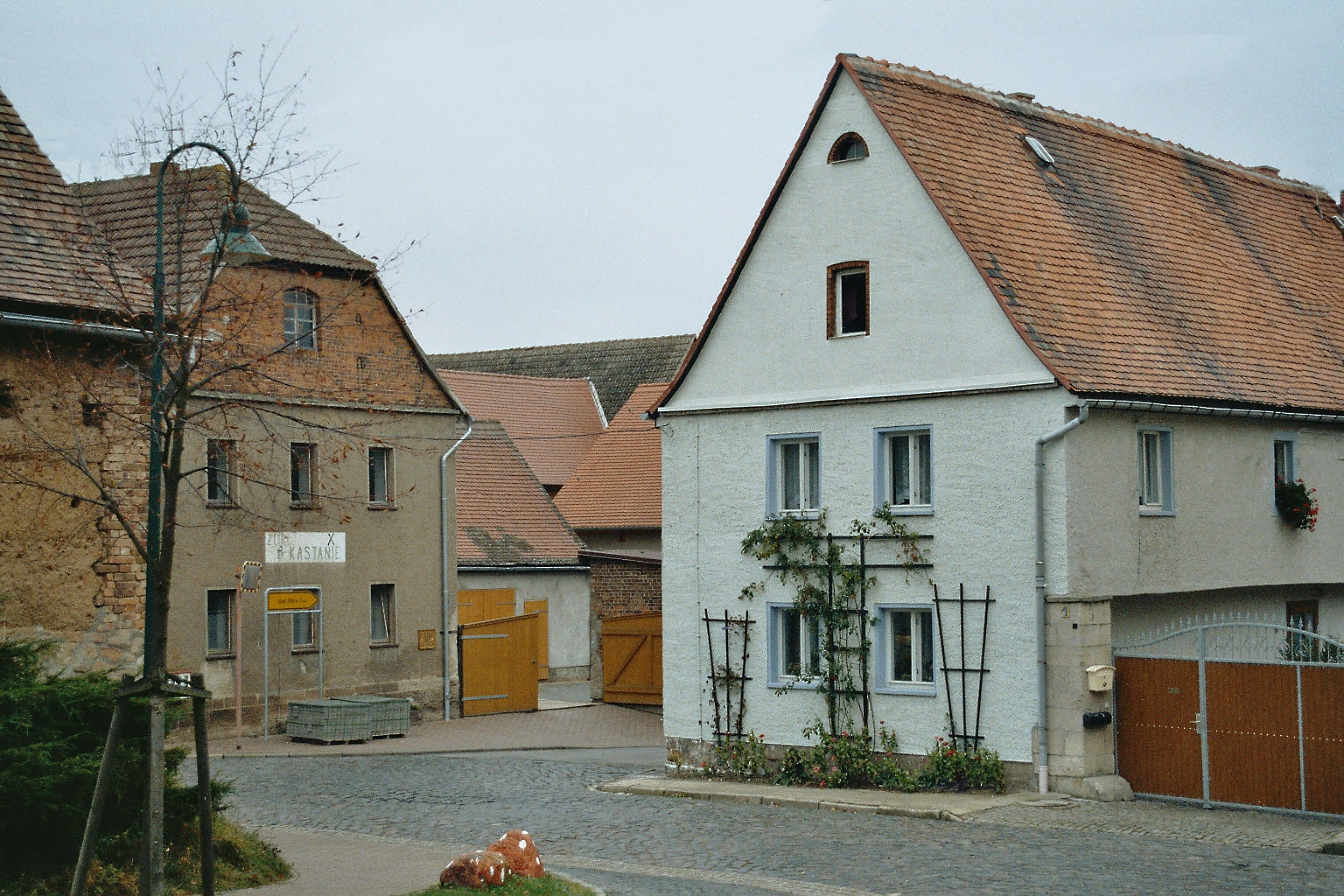 In the centre of the village Wischroda